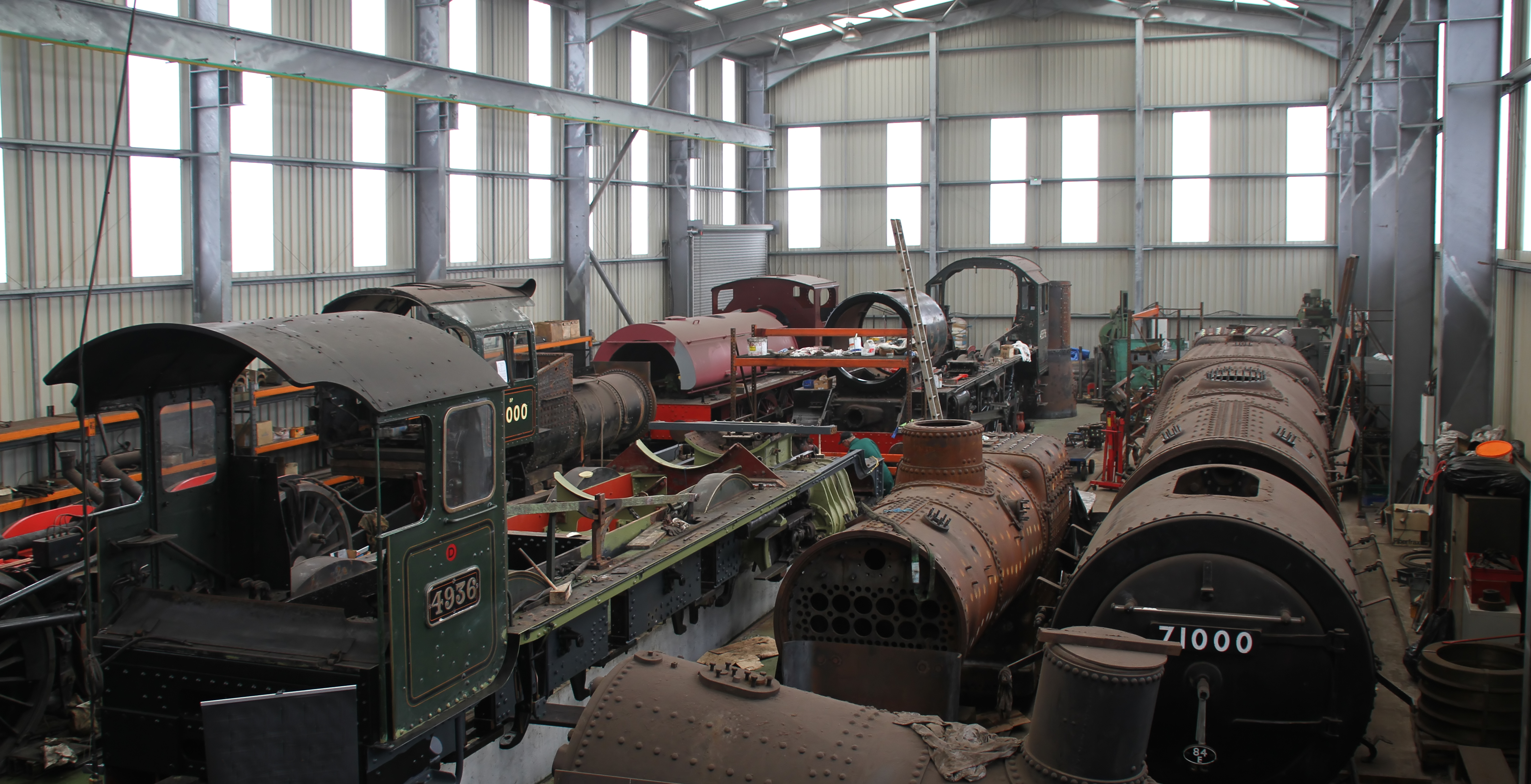 bits of Kinlet Hall and Duke of Gloucester